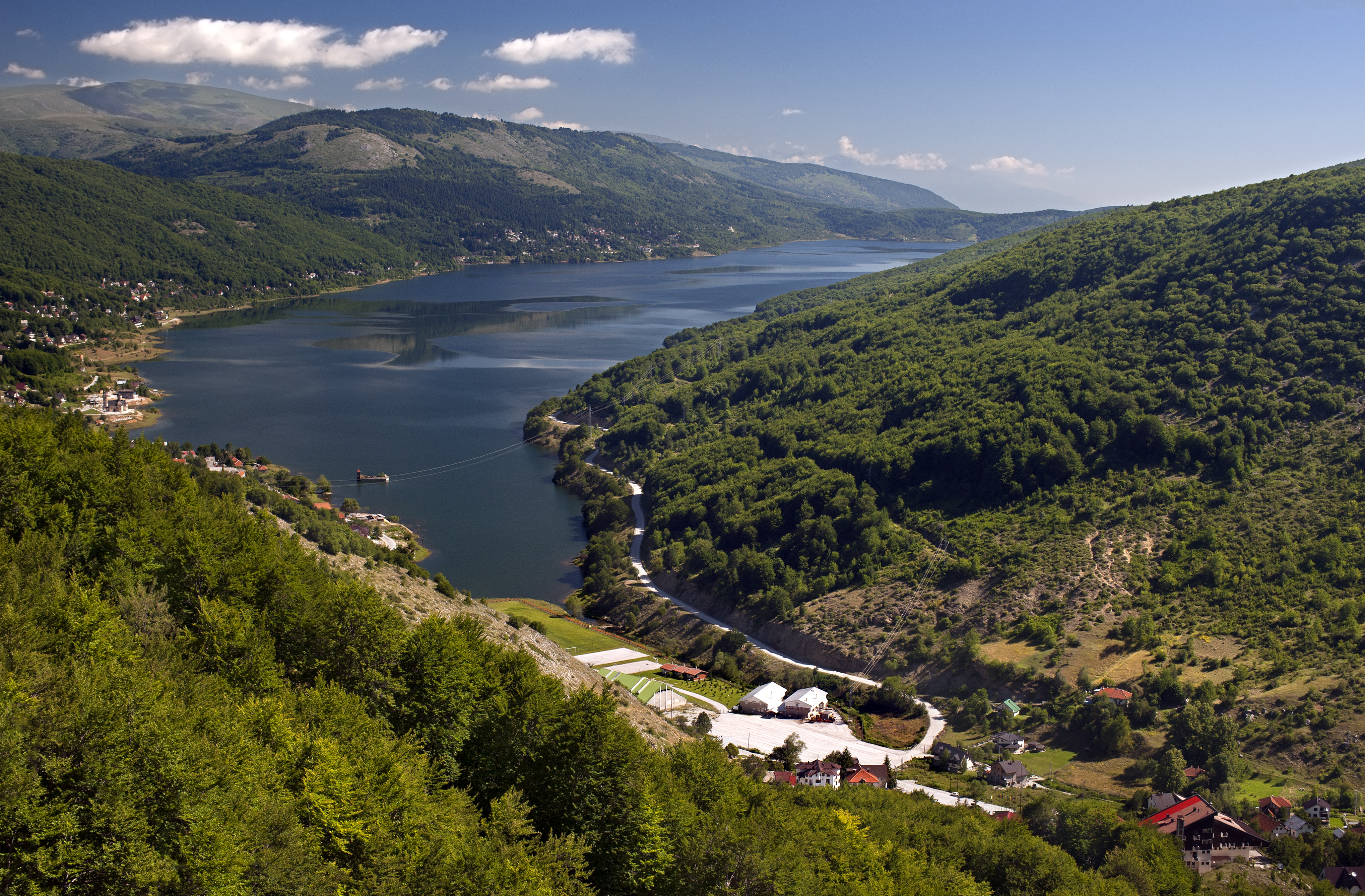 Panoramic image of Mavrovo in Summer, Republic of Macedonia.